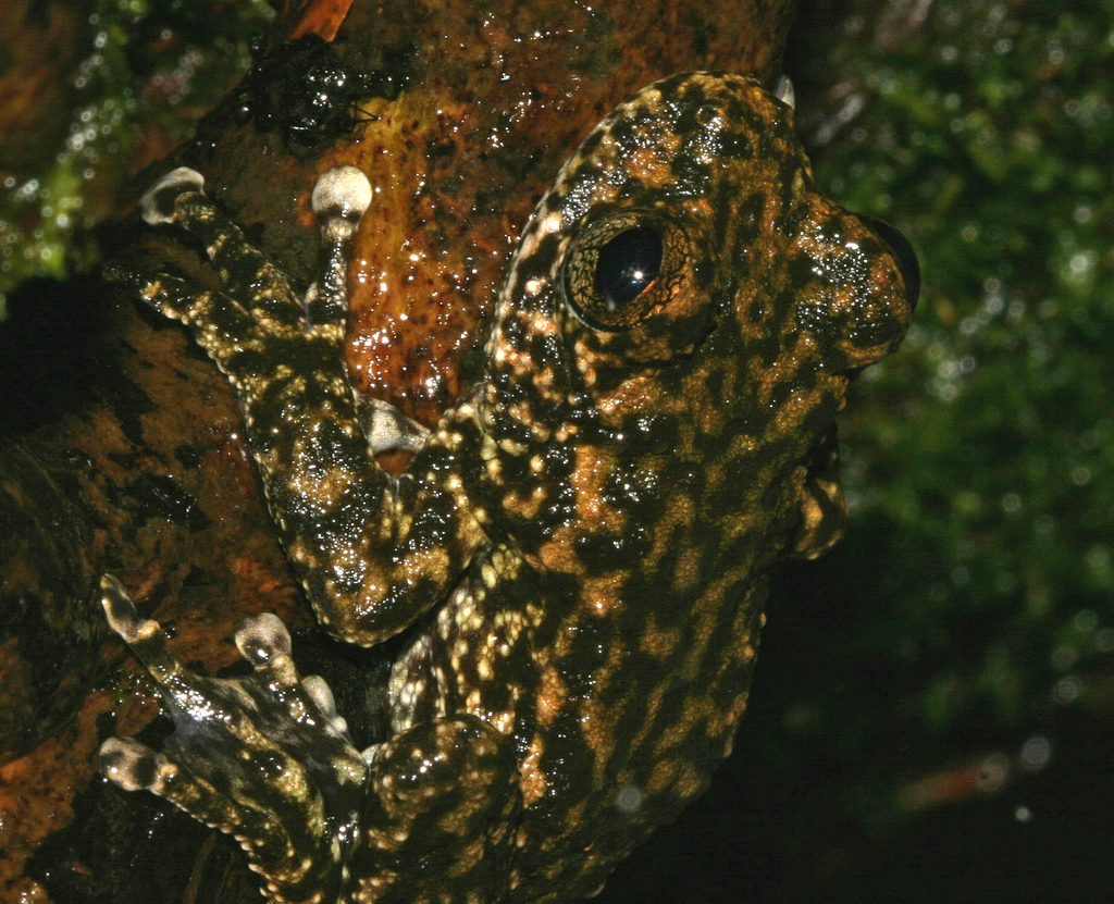 The Waterfall Frog (Litoria nannotis) of Australia.